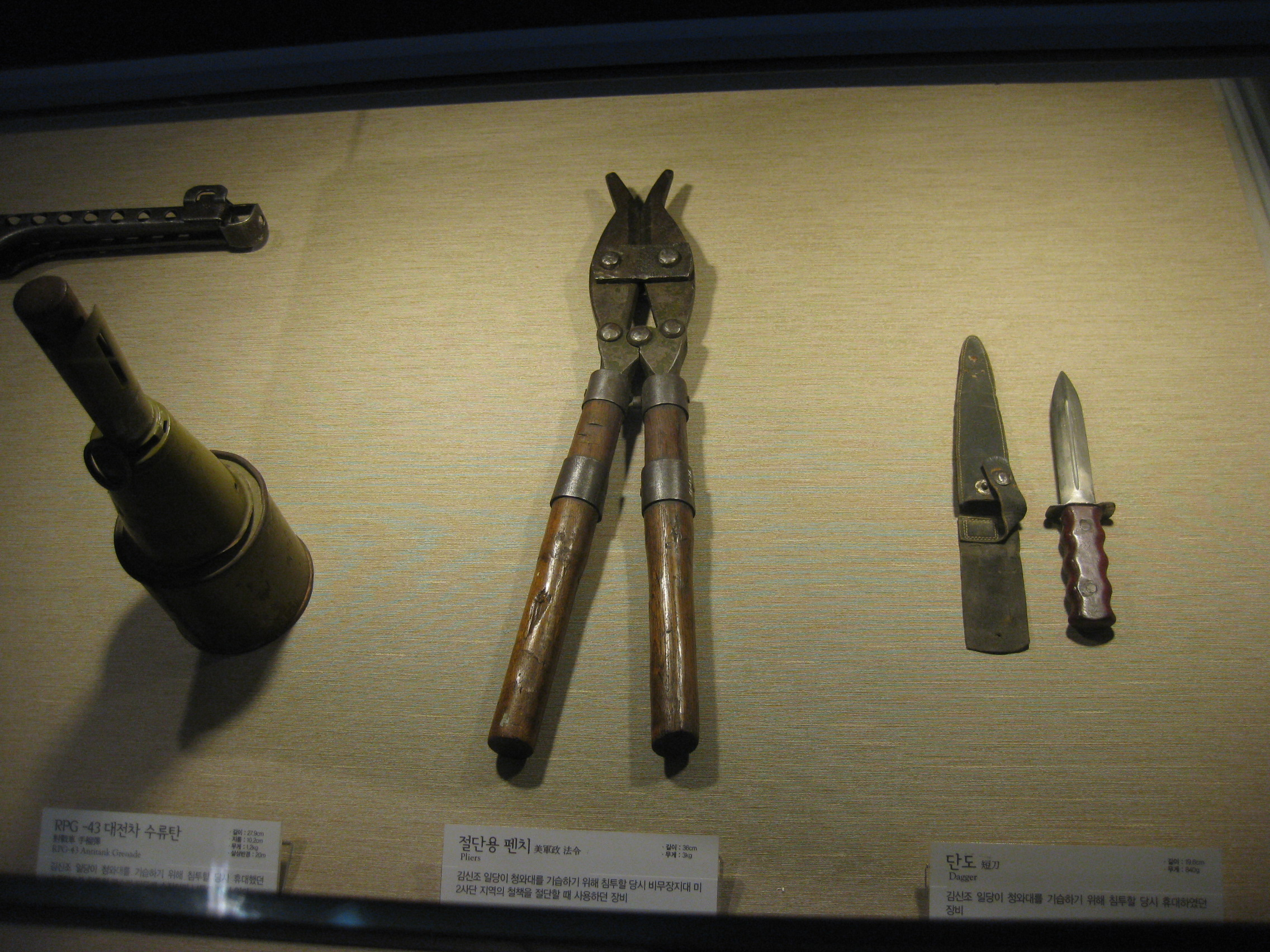 Anti-tank grenade, wirecutters and dagger carried by Unit 124 member Kim Shin-Jo